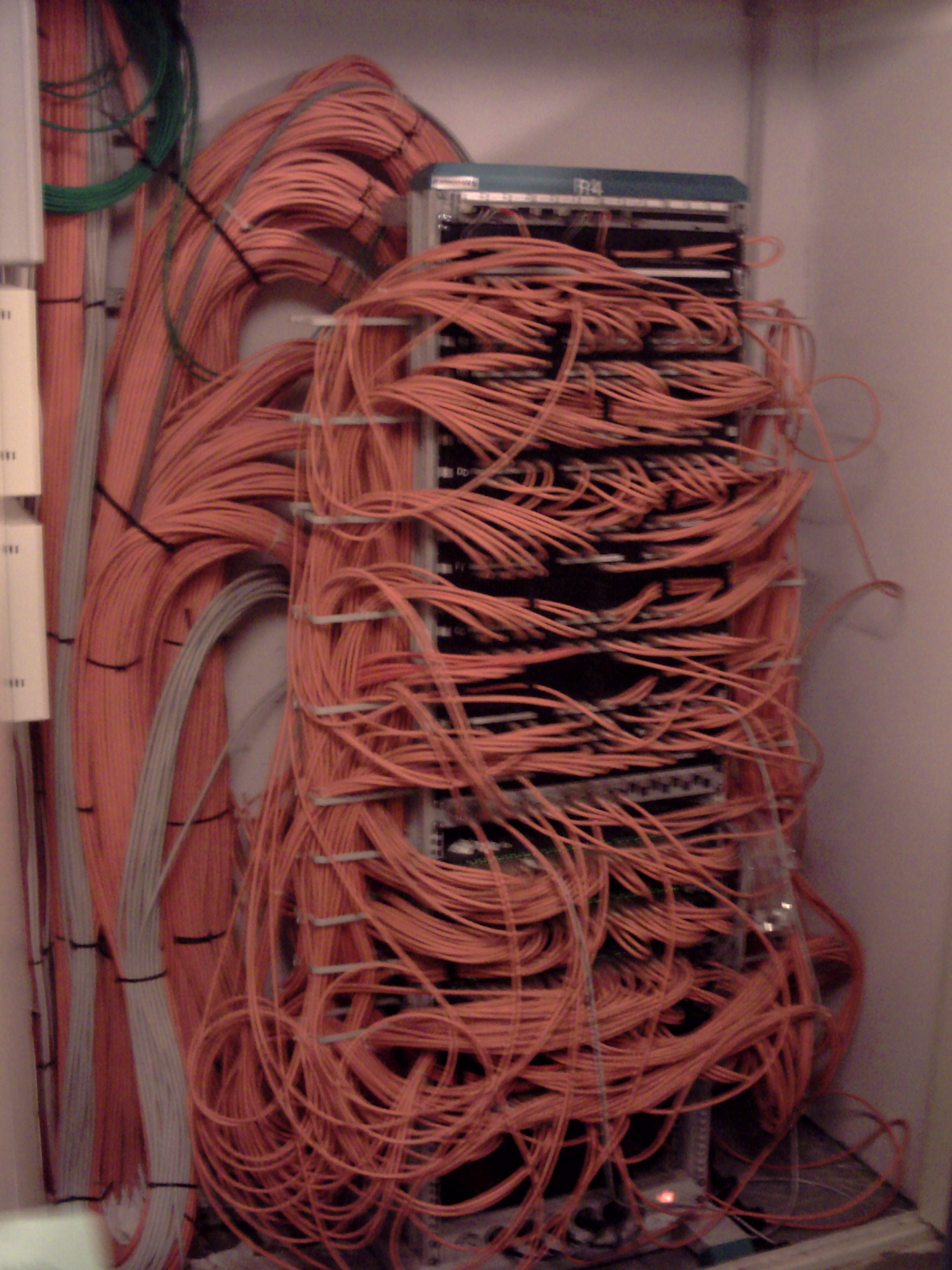 A set of network switches on the first floor of the building of JATIK, University of Szeged. This one is the busiest switch of the library. The photo have been taken on a "Night in The Library, 2009" tour.